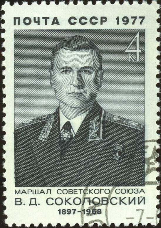 A USSR stamp, Military persons of the USSR